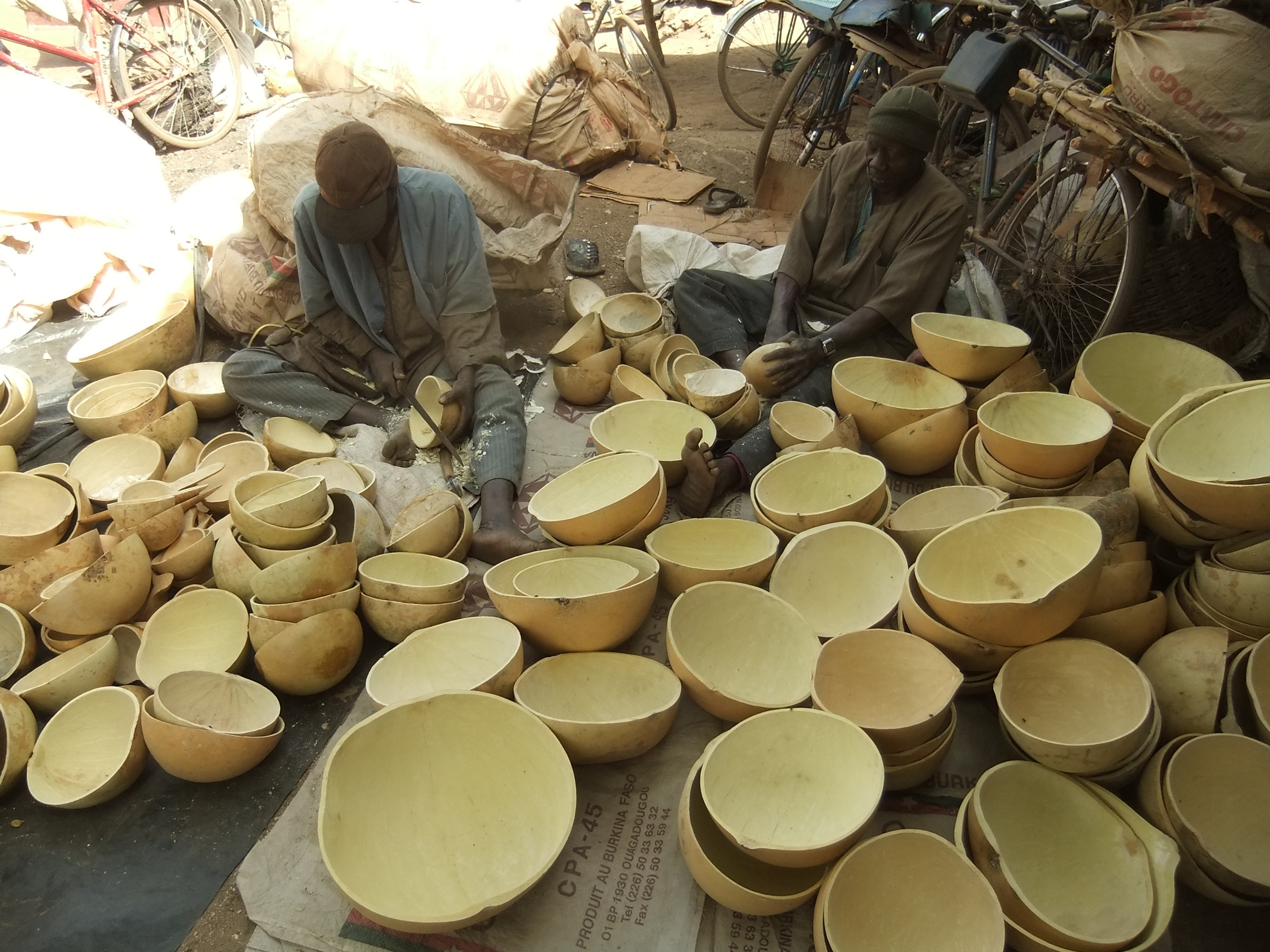 Back streets of Boromo, Burkina Faso This is an image of "African people at work" from Burkina Faso